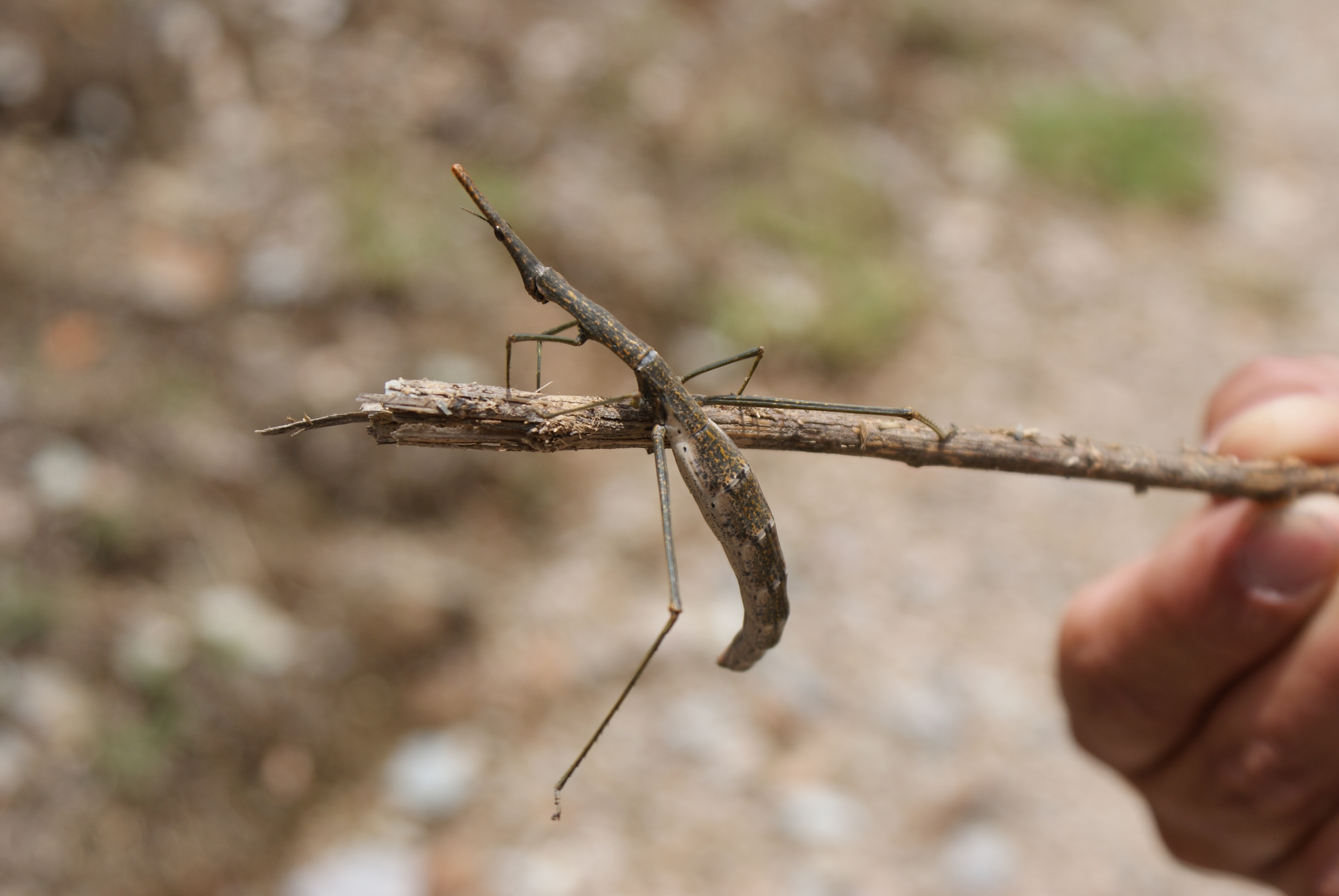 Stick-like grasshopper in the Andes (Peru)